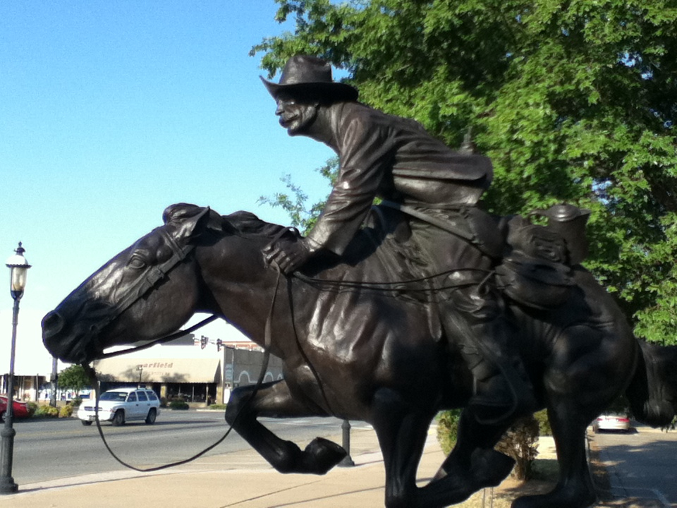 Boomer statue by Harold T. Holden in downtown Enid, Oklahoma.